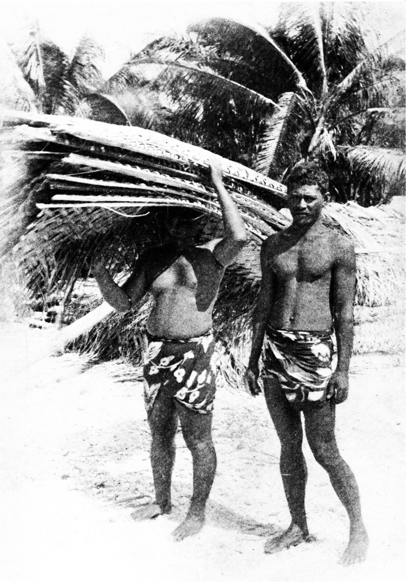 Pearl divers moving their house Hikuom island Paumotus